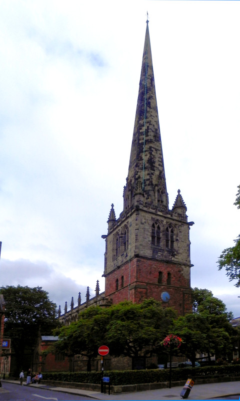 Parish Church of St Mary the Virgin, near to Shrewsbury, Shropshire, Great Britain.